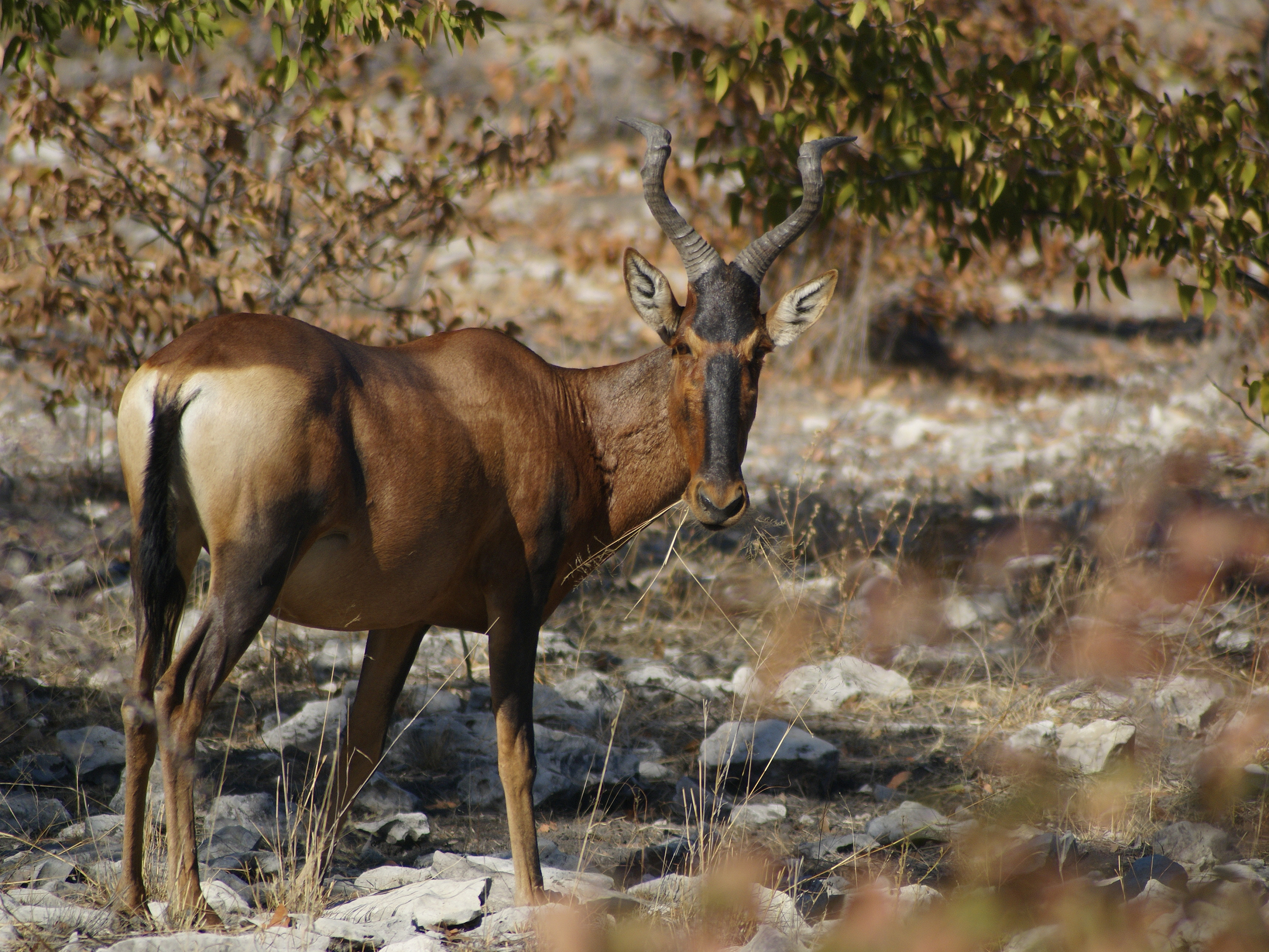 A Red Hartebeest between Olifantsbad and Aus, in Etosha, Namibia